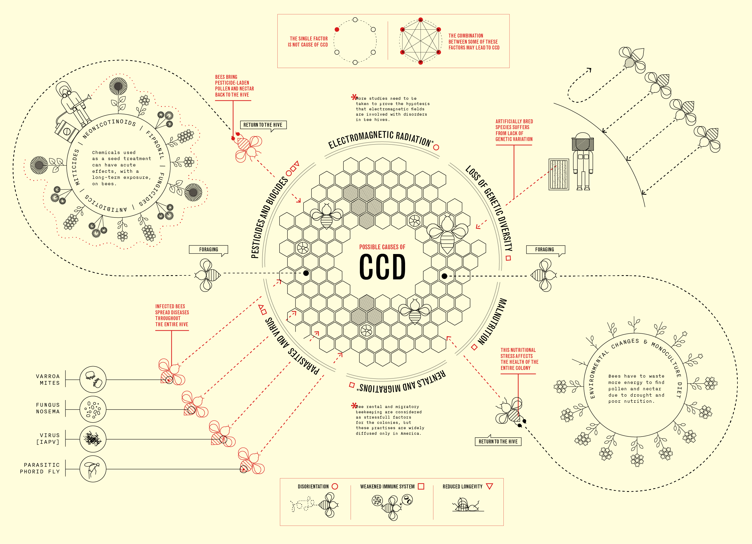 This image gives an overview of the possible causes of the CCD phenomenon